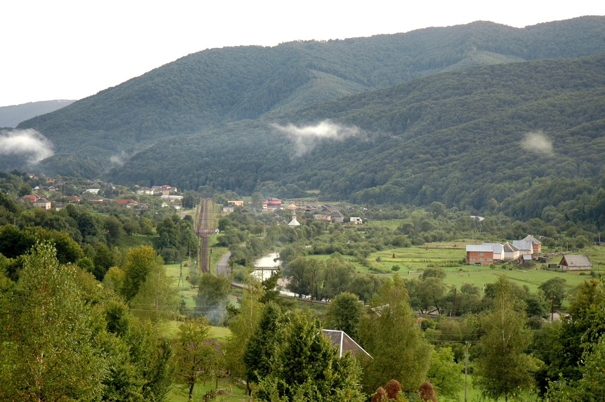 Panoramic view of Zhornava (Transcarpathian oblast, Ukraine)